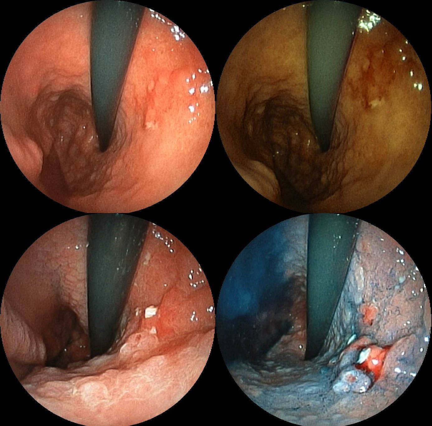 Stomach cancer shown by EGD. Its histology was poorly differentiated with signet ring cells.